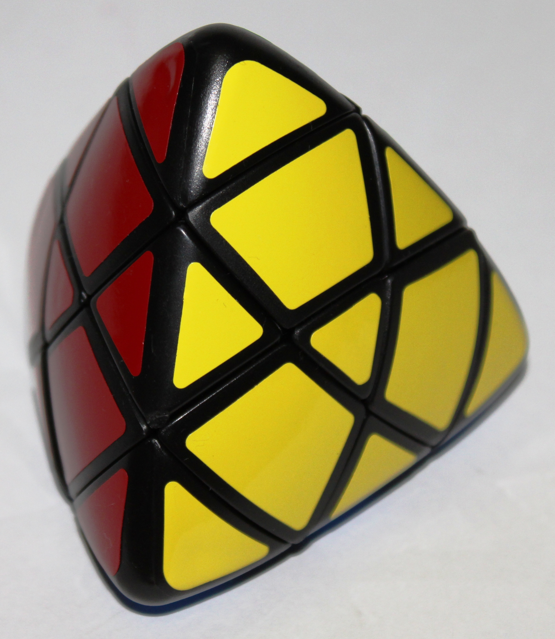 This is a photo of a "Rubiks cube"-like sequential move puzzle.